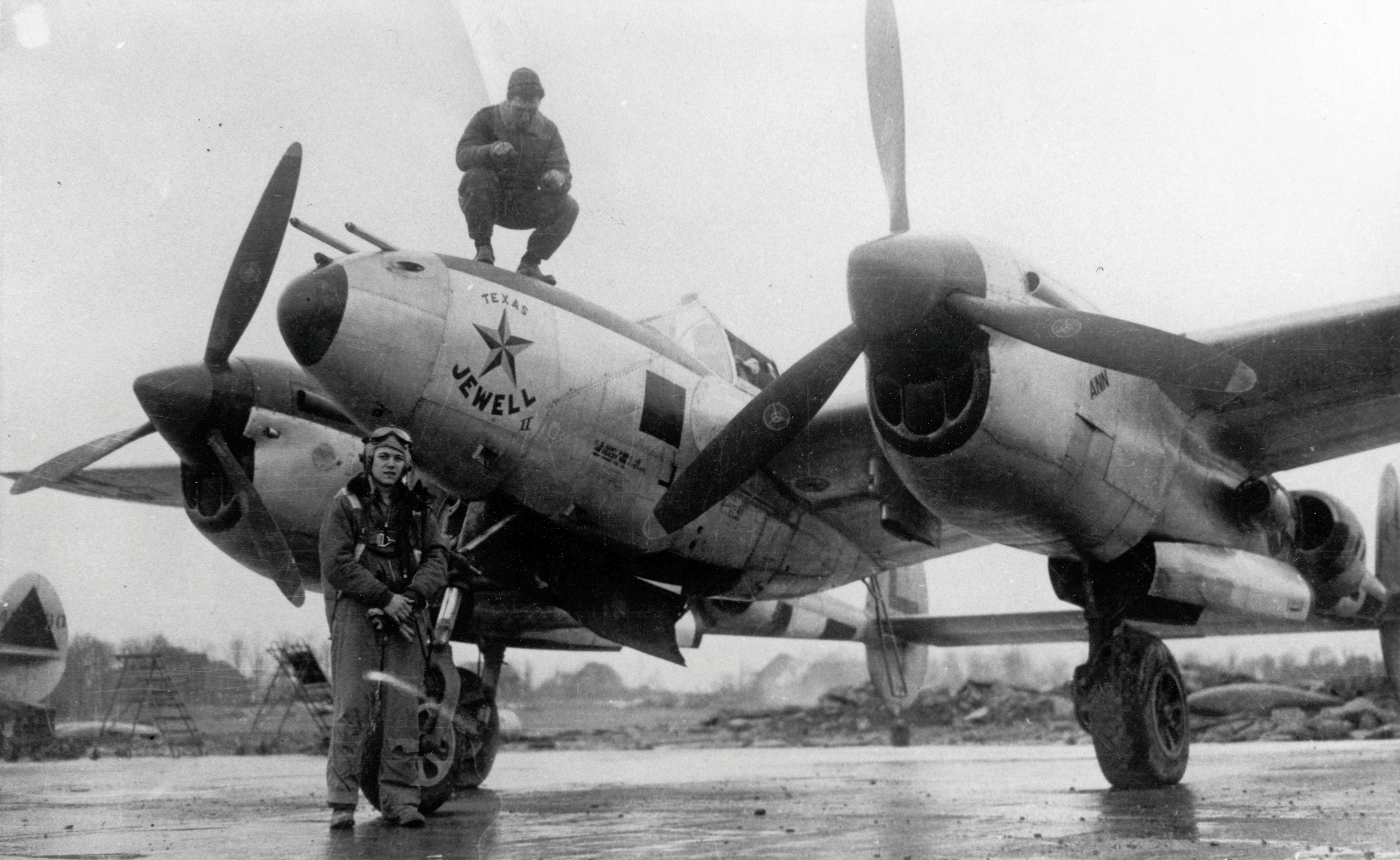 Pilot Fred J. Laurentz (Linden, Texas, USA) and a ground crewman of the 370th Fighter Group with their P-38 Lightning nicknamed "Texas Jewell II".